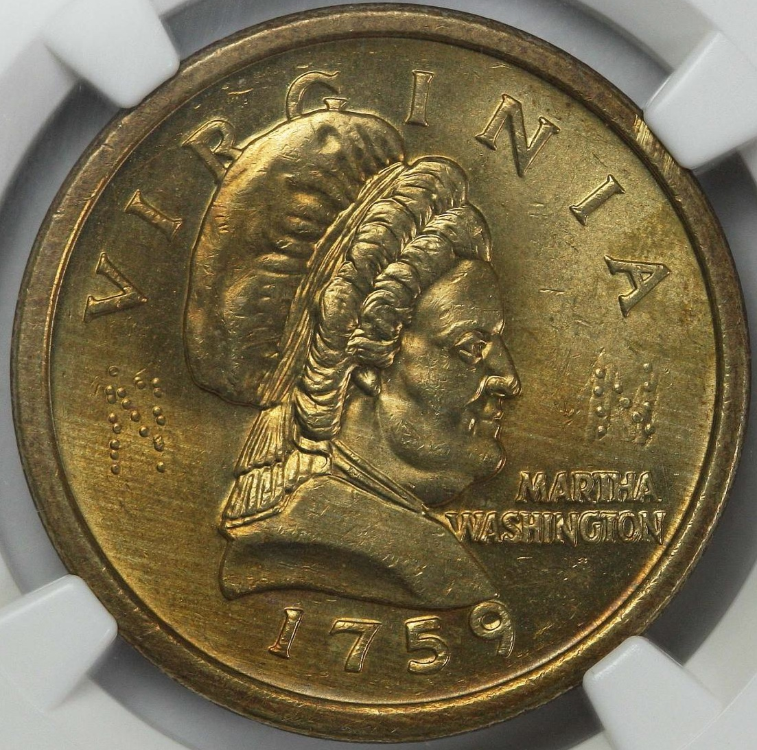 Obverse of pattern coin for 2000 Sacajawea dollar. The Mint has since the mid 1960s used "nonsense dies" for patterns, so they can't be spent. The NN indicates that the coin contains no manganese.